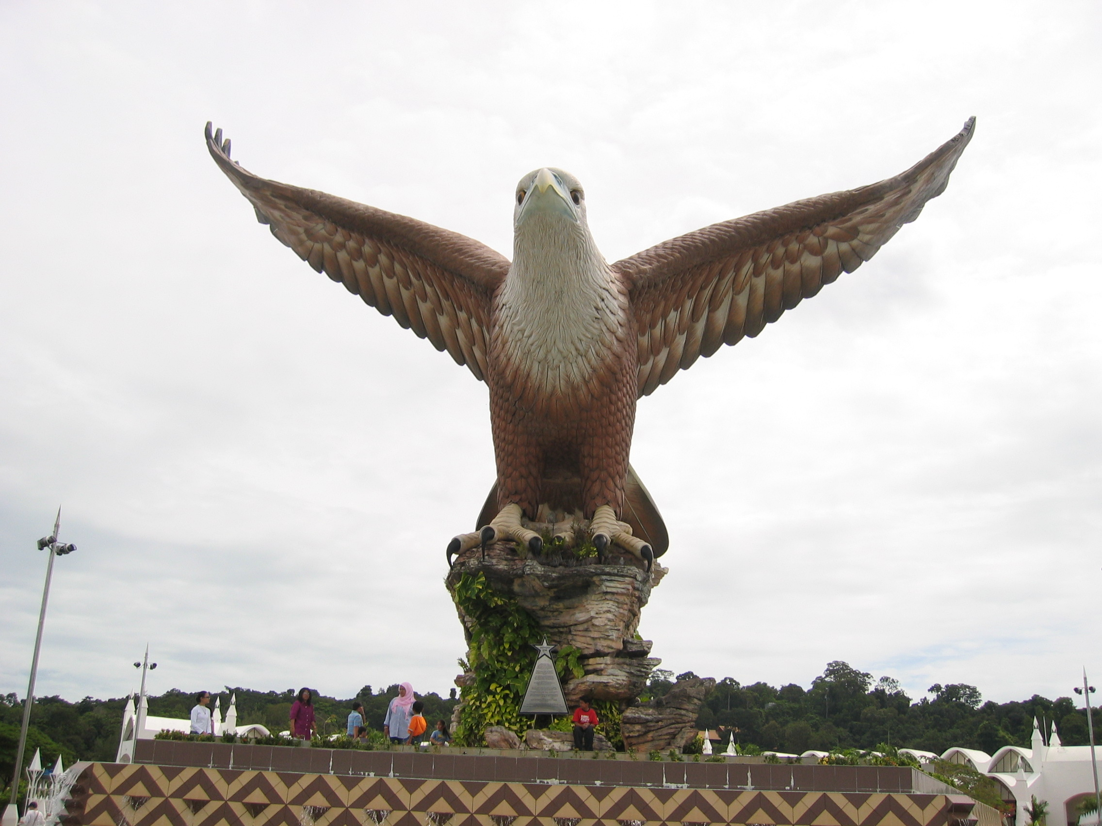 The giant eagle statue in Langkawi viewed from the front. Taken by me.